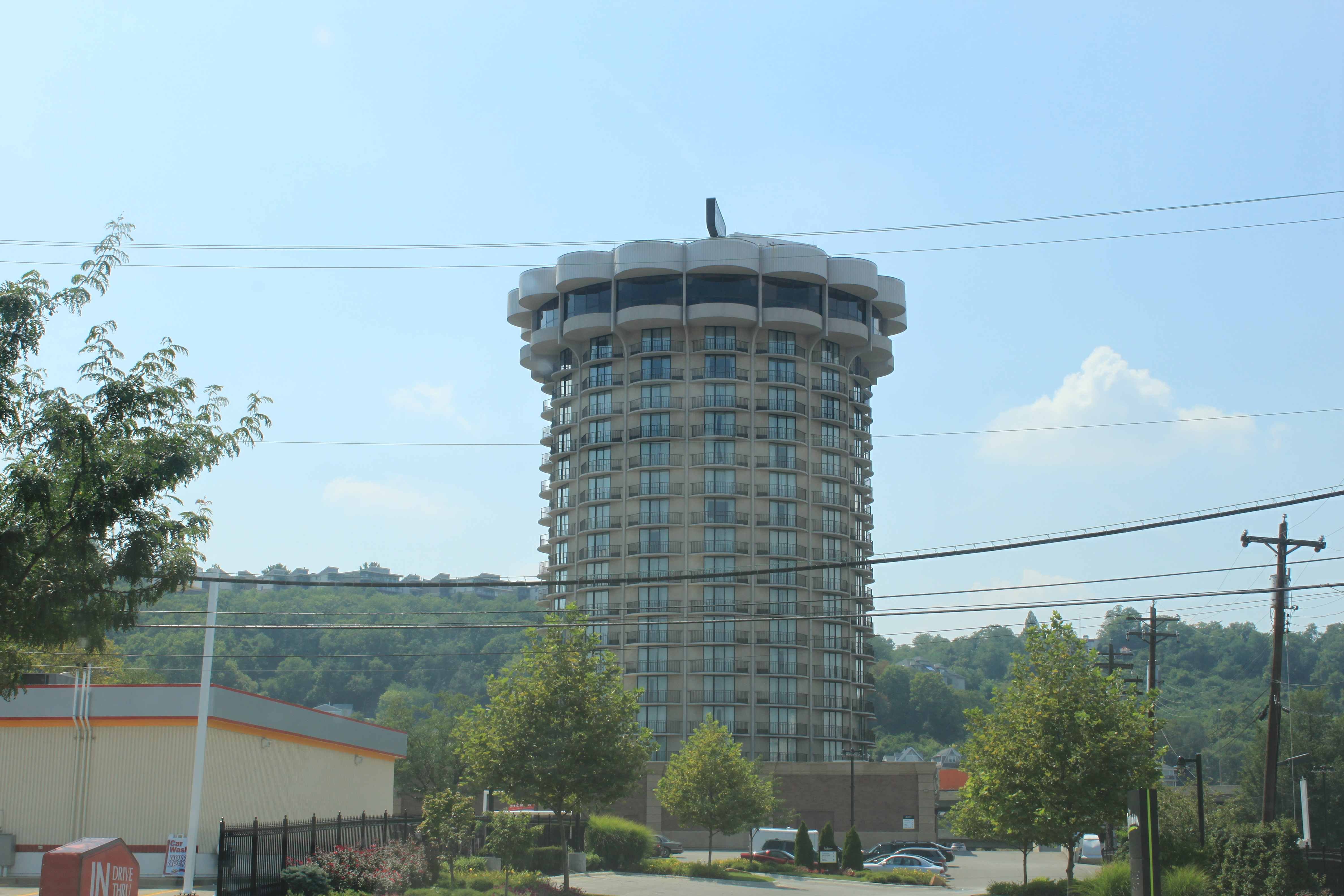 Cincinnati Radisson Hotel, Fifth Avenue, Covington Kentucky